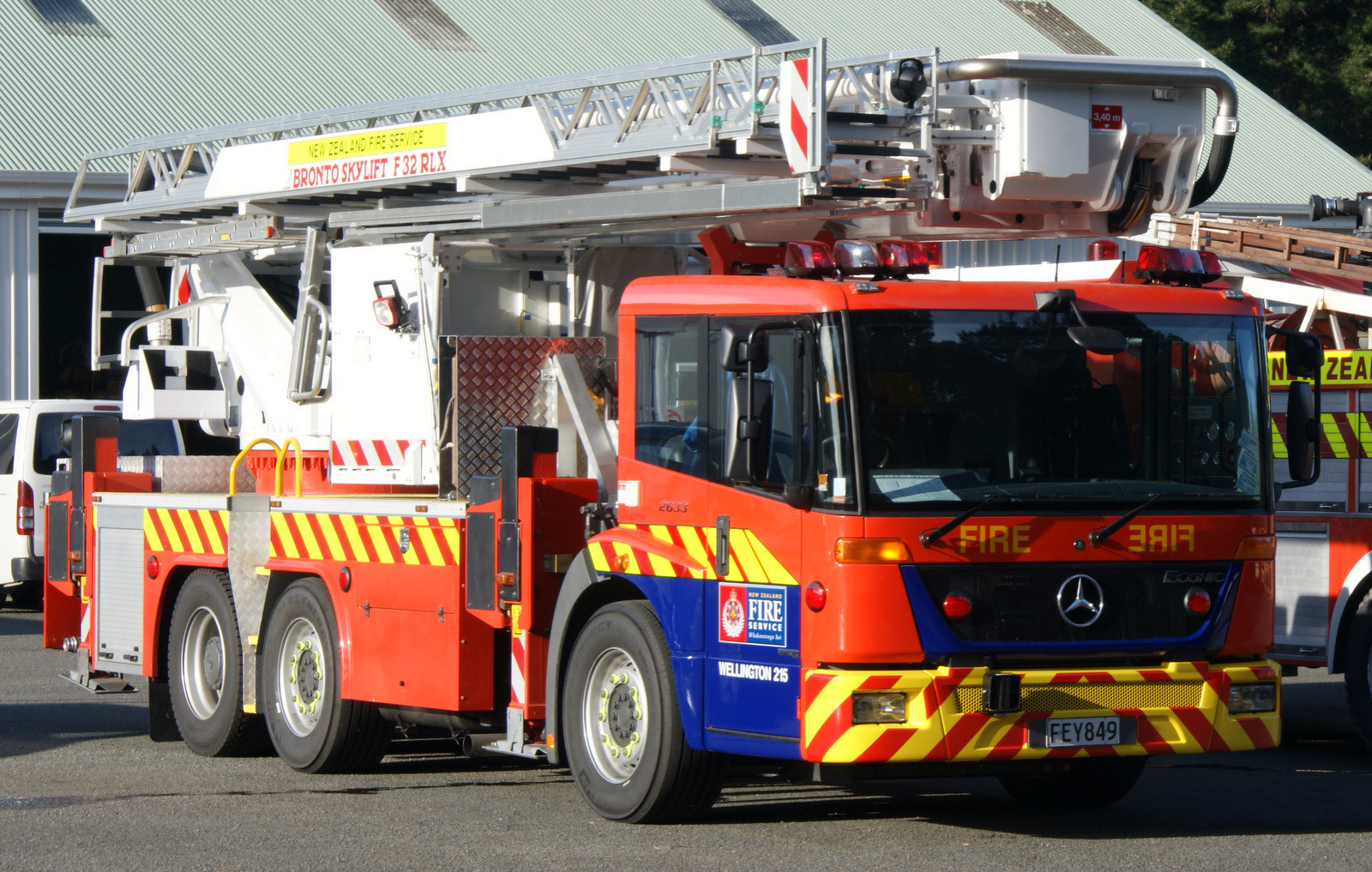 Wellingtons 32m Bronto Skylift Appliance